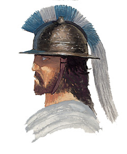 Pot helmet,rimmed with plume,used by Celts,Illyrians,Veneti and Italics.(The sketch was part of a study for a publication but the project has been cancelled